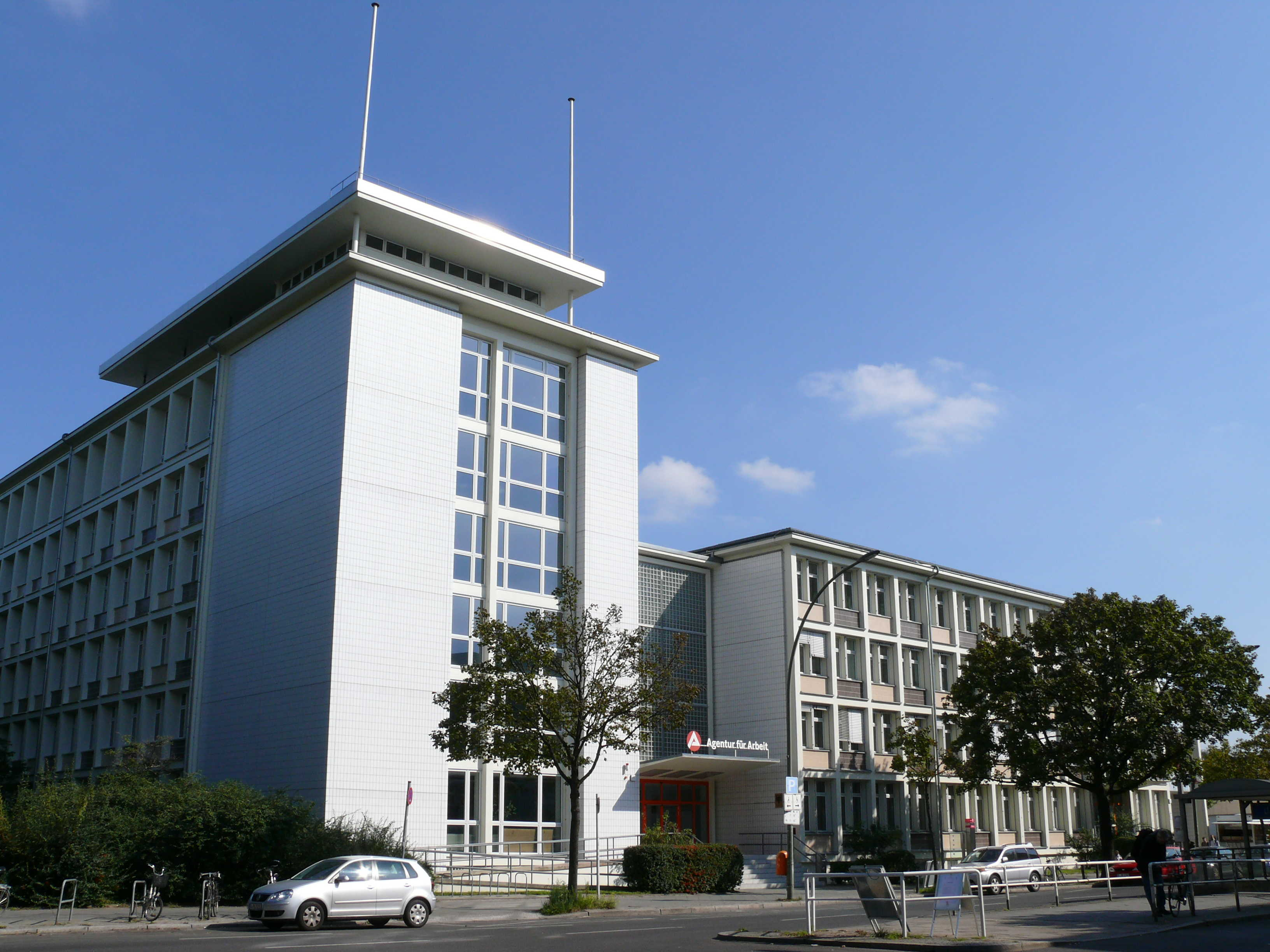 Berlin-Wedding Müllerstraße Arbeitsamt